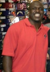 Earnest Graham at a signing in Tampa, Florida